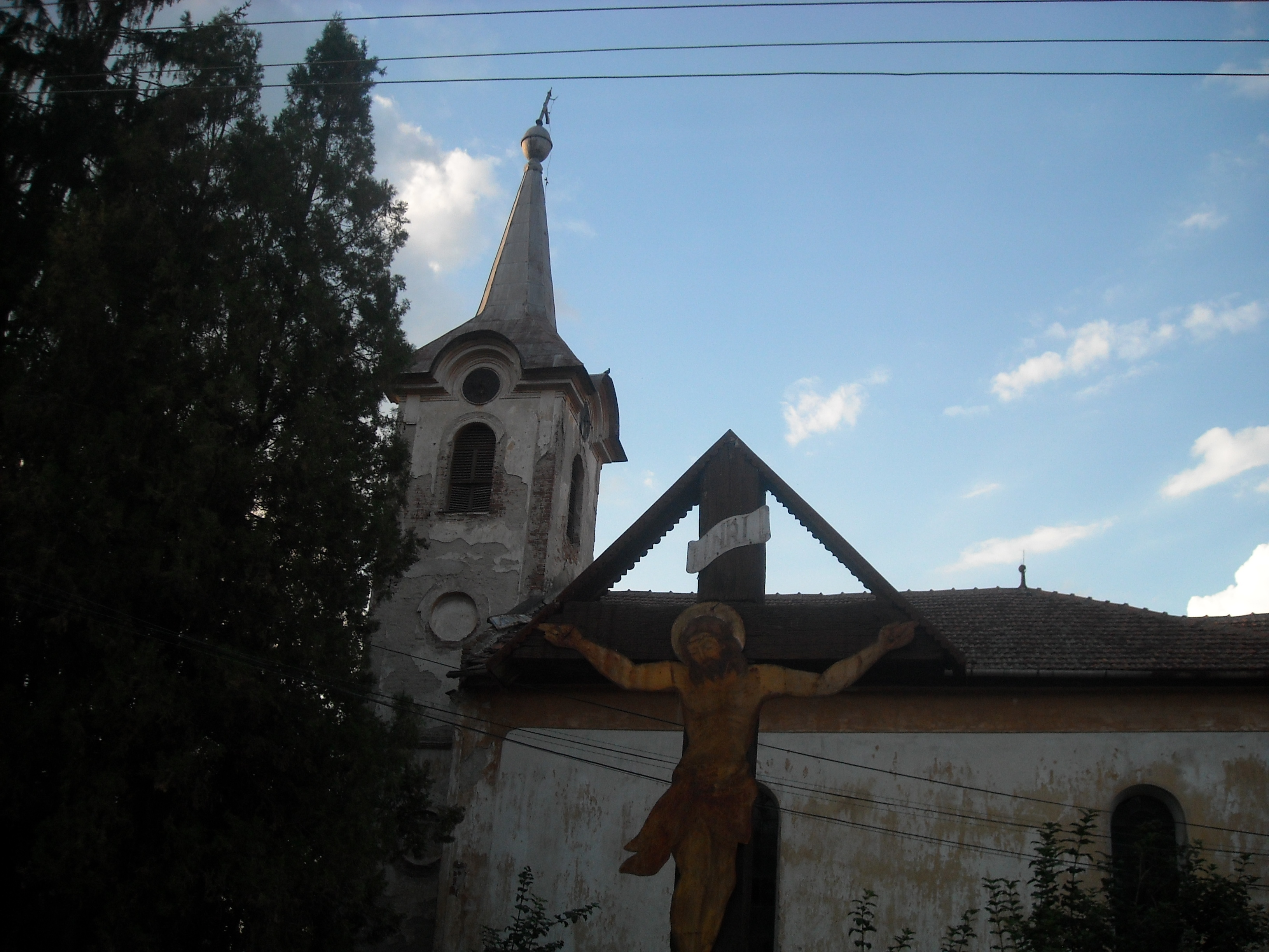 Roman Catholic church in Ilia (Marosillye), Hunedoara County, Romania